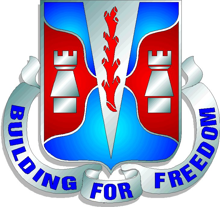 878th Engineer Battalion Distinctive Unit Insignia